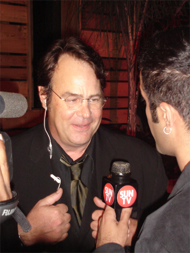 Dan Aykroyd being interviewed at the 2005 Toronto Film Festival